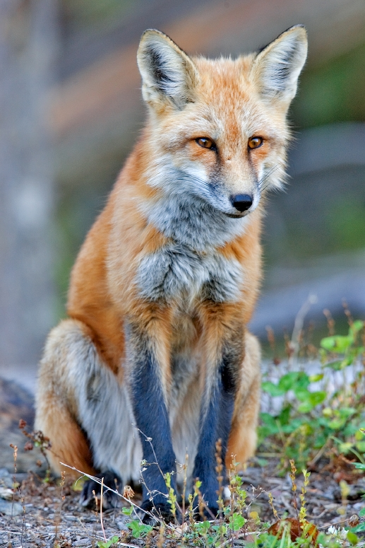 Red Fox (male) (Vulpes vulpes) Quesnel Lake, British Columbia